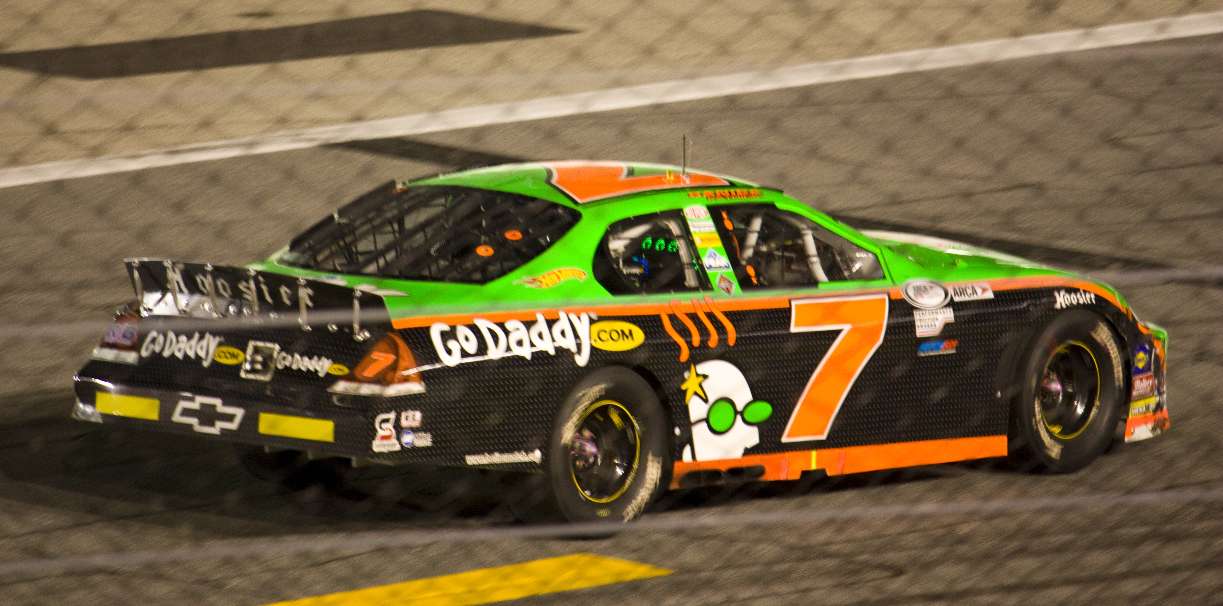 Danica Patrick during the 2010 Lucas Oil Slick Mist 200 at Daytona International Speedway